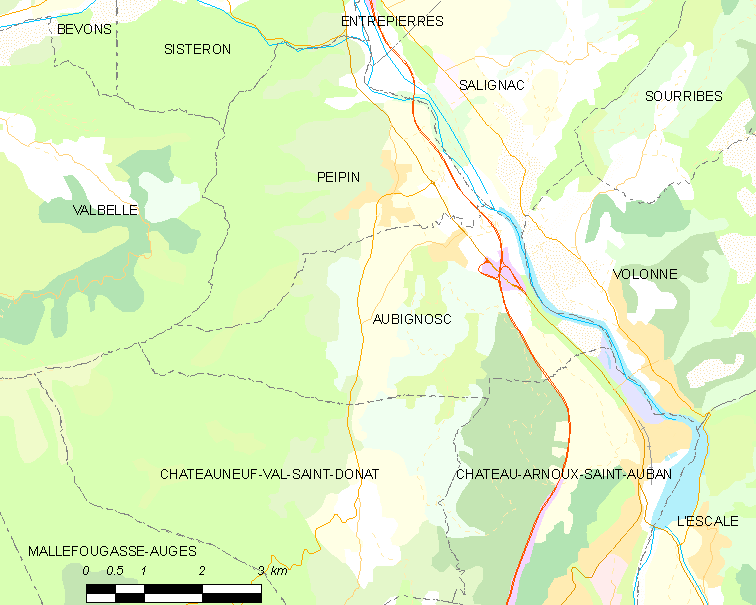 Map commune FR insee code 04013.png Légende